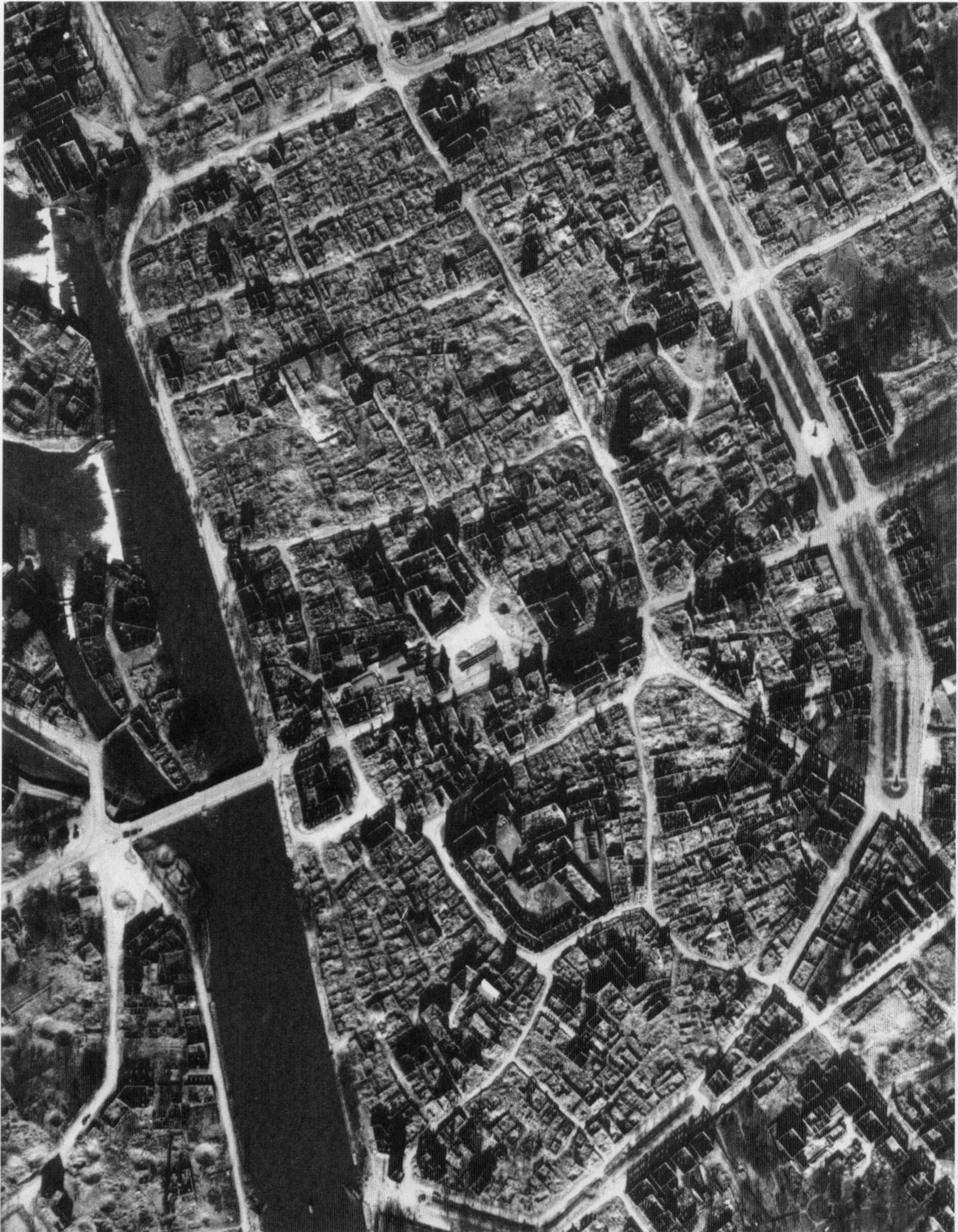 Aerial photo of the inner city of the destroyed Heilbronn on March 23, 1945